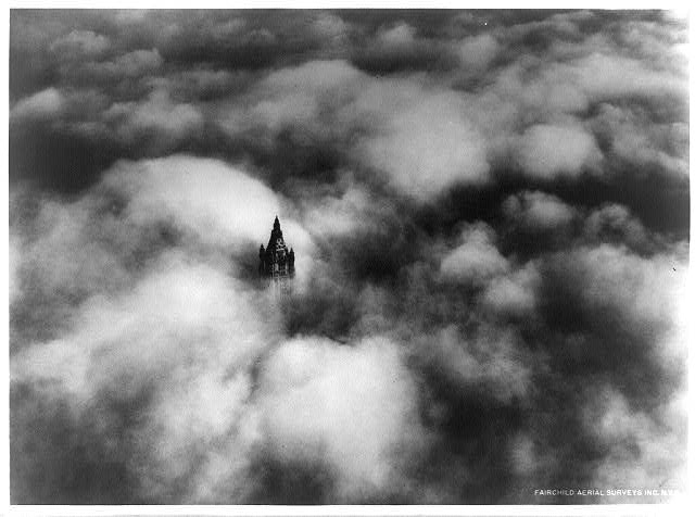 TITLE: Woolworth tower in clouds, New York City CALL NUMBER: U.S. GEOG FILE - New York--New York City [P&P] REPRODUCTION NUMBER: LC-USZ62-90574 (b&w film copy neg.) SUMMARY: Woolworth Building. MEDIUM: 1 photographic print. CREATED/PUBLISHED: c1928 May 22. CREATOR: Fairchild Aerial Surveys, inc. NOTES: J297719 U.S. Copyright Office. Aerial photograph by Fairchild Aerial Surveys Inc., N.Y.C. SUBJECTS: Woolworth Building (New York, N.Y.)--1920-1930. Skyscrapers--New York (State)--New York--1920-1930. Clouds--1920-1930. FORMAT: Aerial photographs 1920-1930. Photographic prints 1920-1930. DIGITAL ID: (b&w film copy neg.) cph 3b36923 *: VIDEO FRAME ID: LCPP003B-36923 (from b&w film copy neg.) CARD #: 96518598